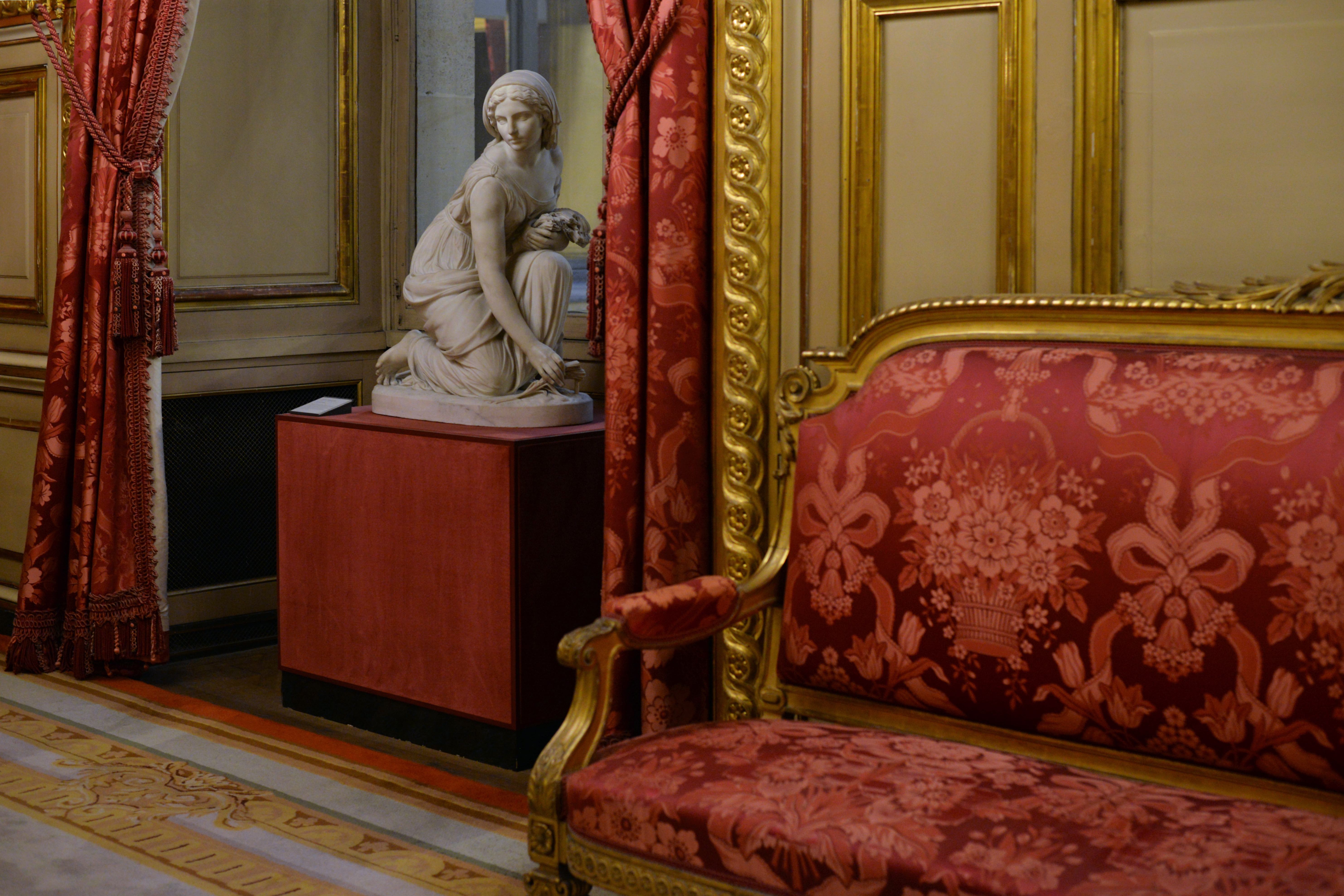 Ruth gleaning by Hippolyte Bonnardel.